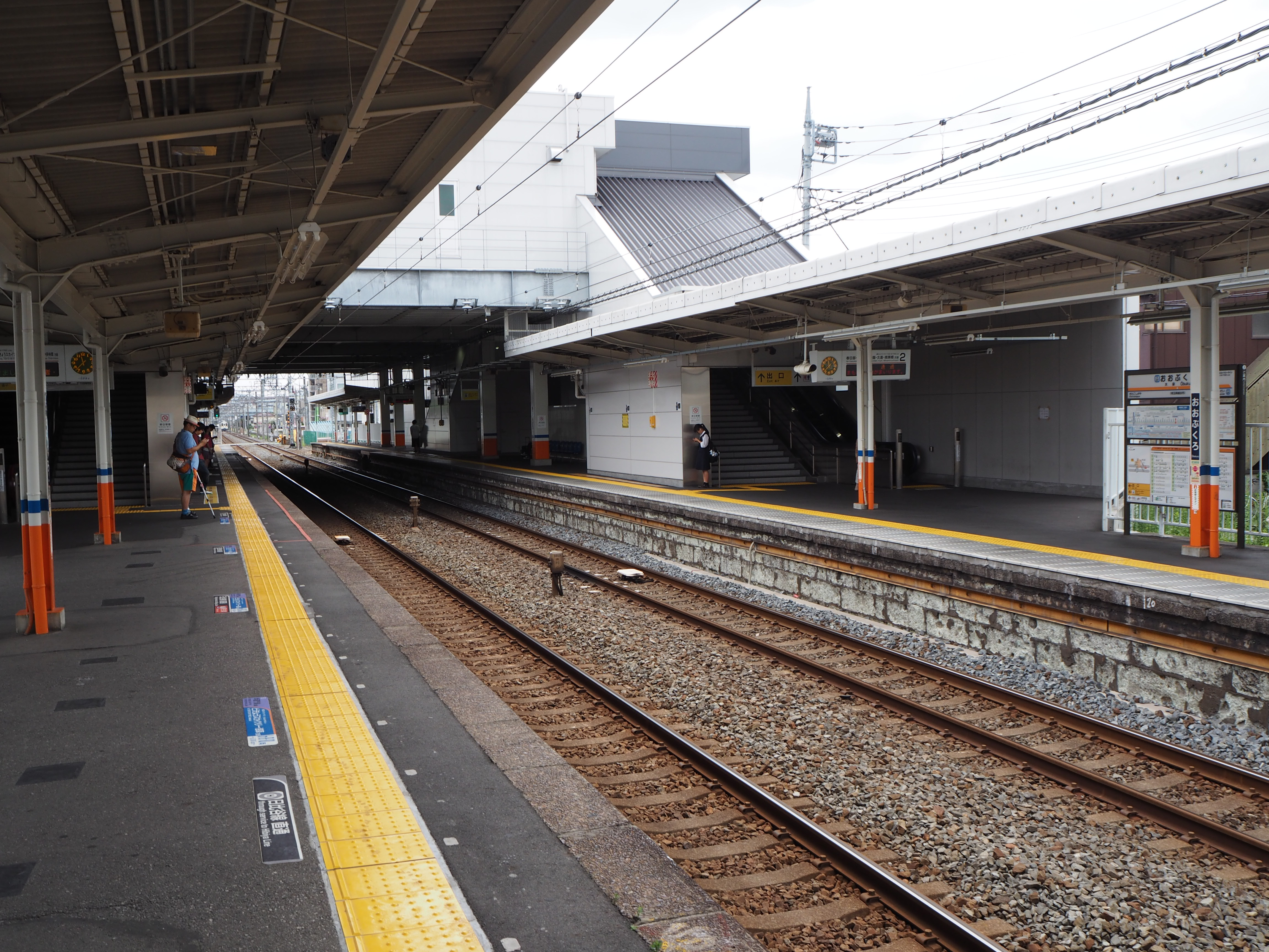 Platforms of Ōbukuro Station